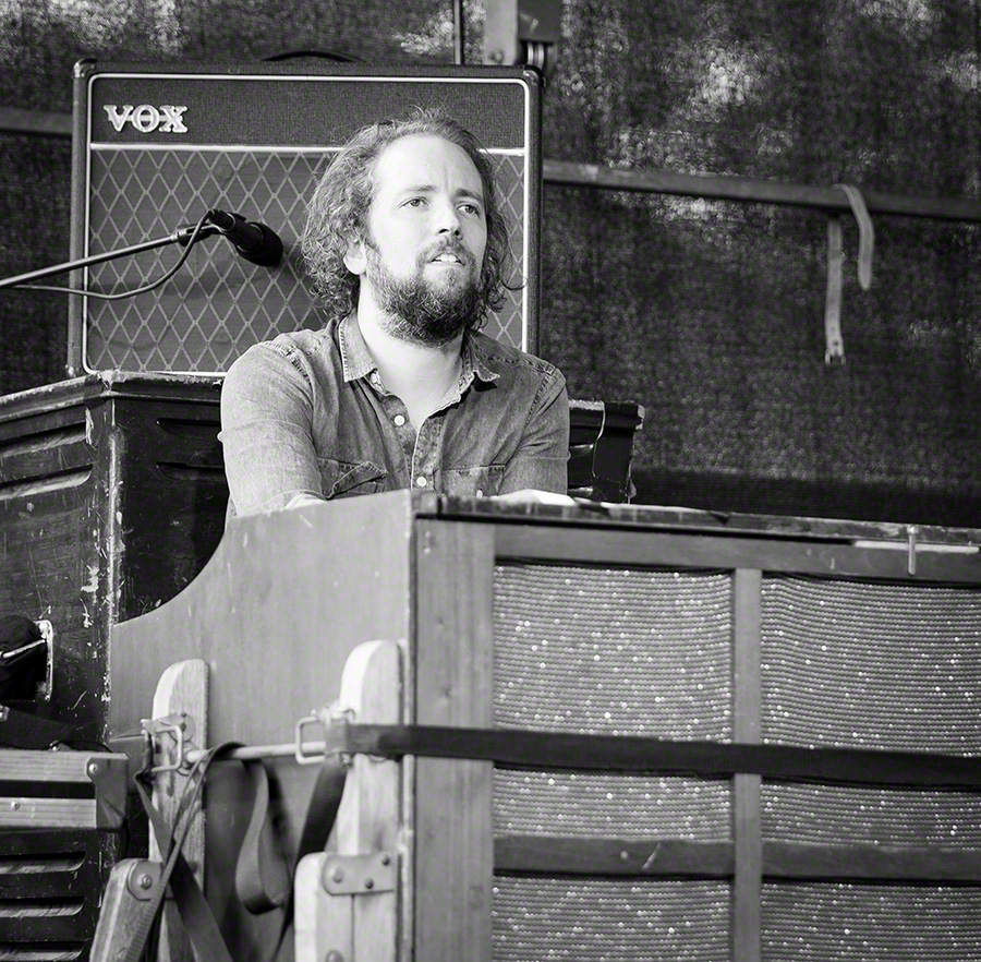 Bobby Hughes Experience performs at Piknik i Parken in Oslo on 25. June 2016. Lineup:Espen Horne (DJ)David Wallumrød (keyboard)Mathias Eick (trumpet)Jørgen Munkeby (tenor saxophone)Sidiki Camara (percussion)Unkown (drums)Unkown (dancer)